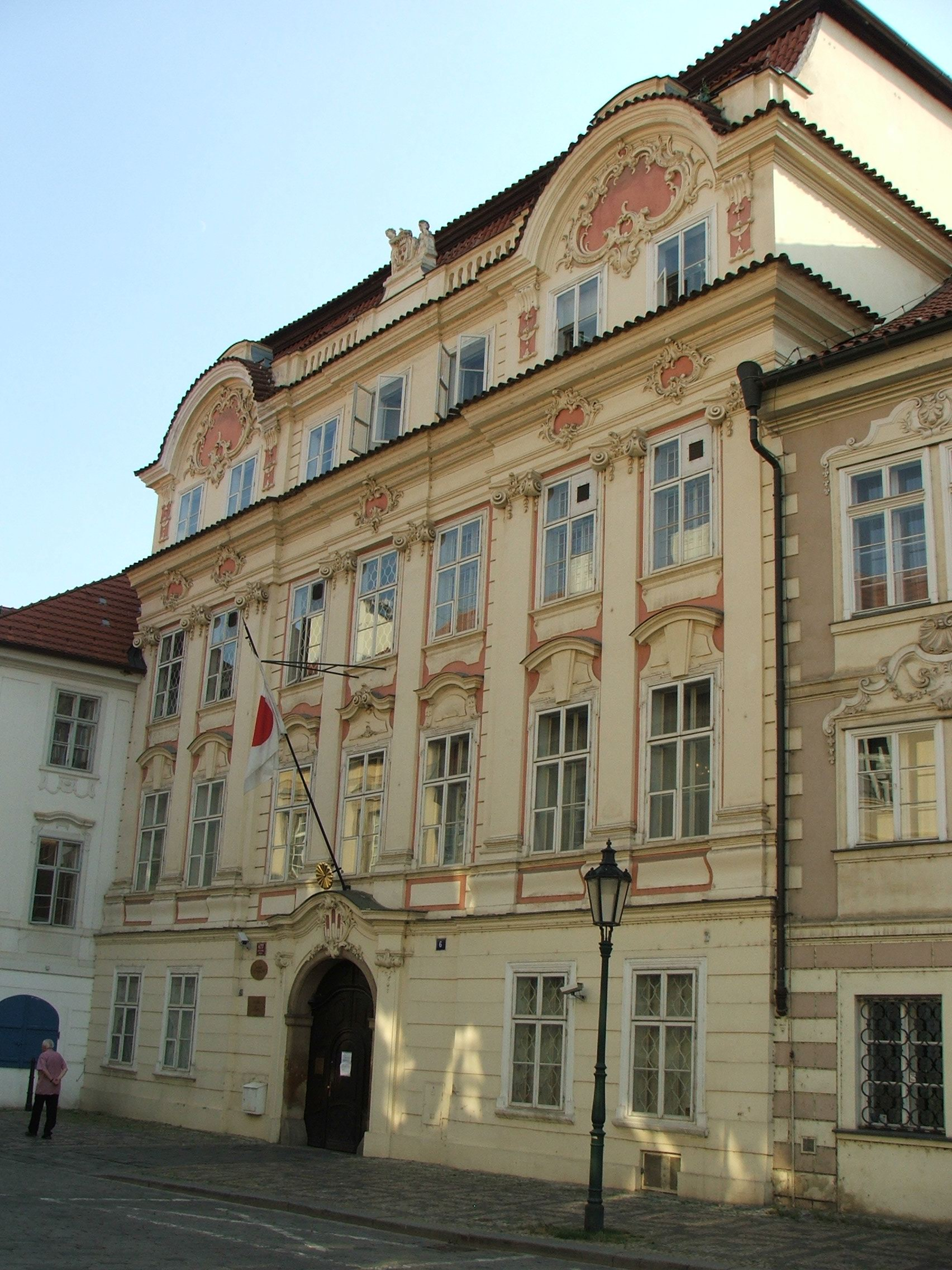 Turba Palace - seat of Embassy of Japan in Prague - Malá Strana, Czechia